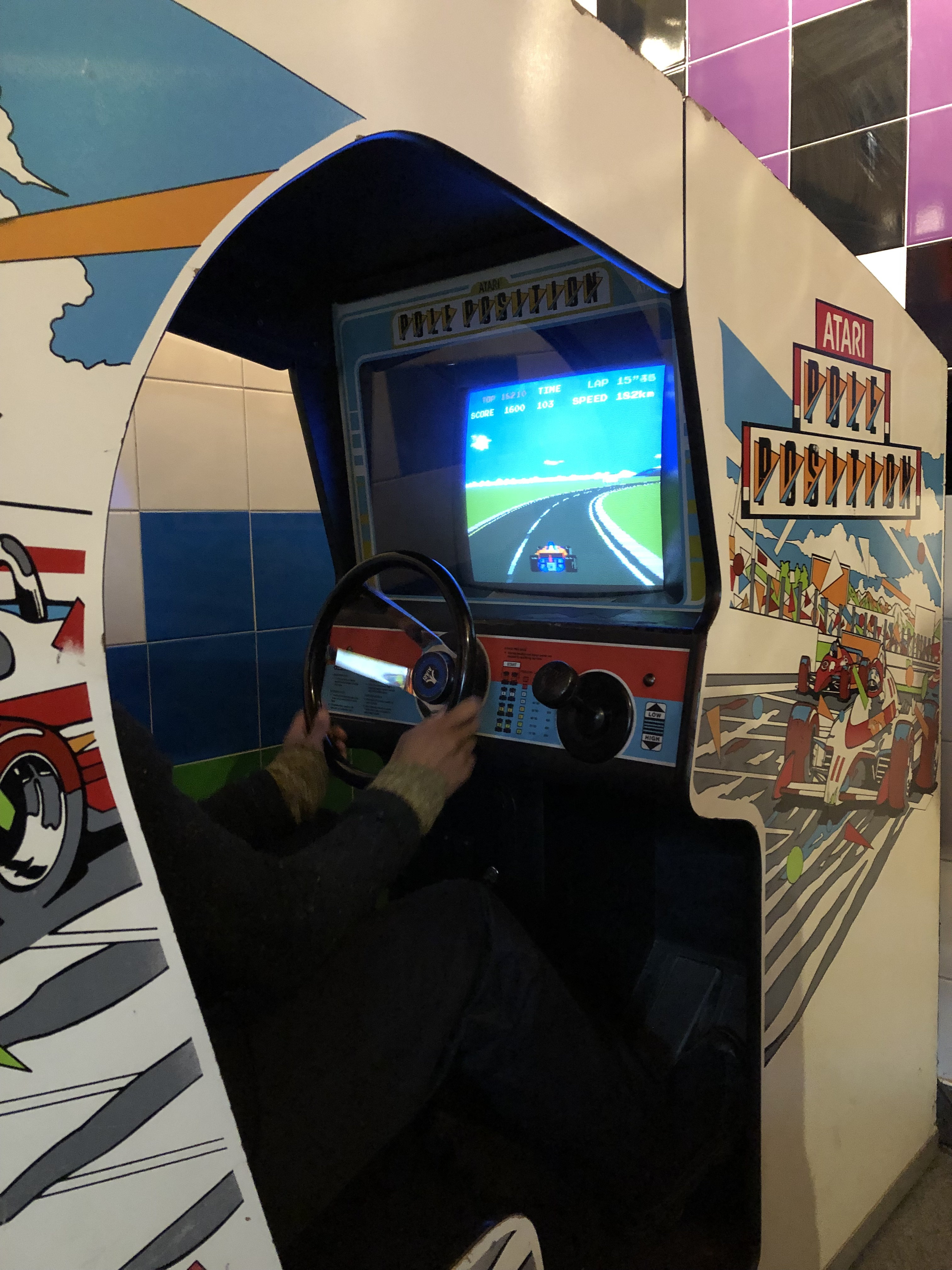 Pole Position in Computerspielemuseum, Berlin